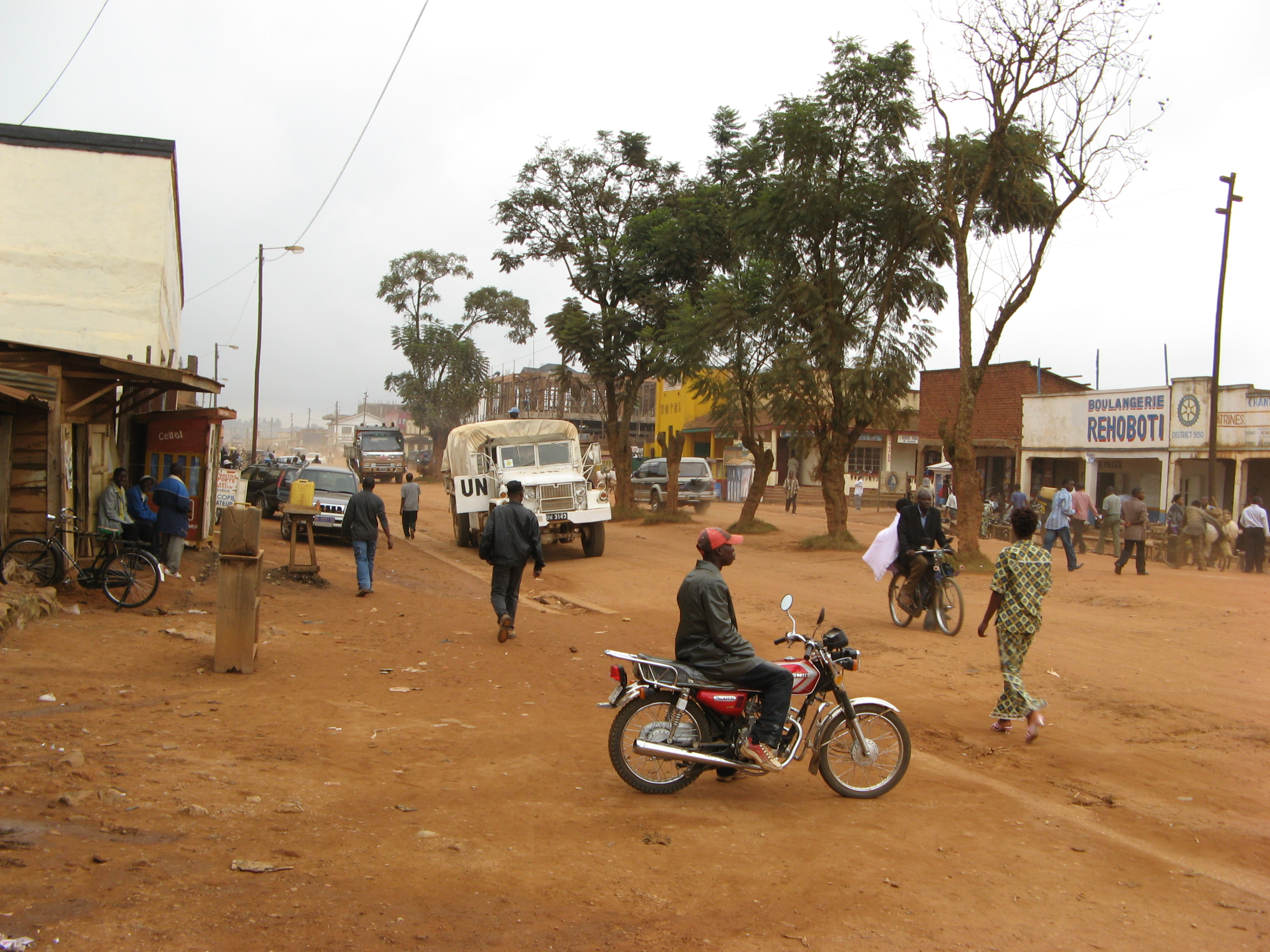 Butembo, main street (July 2007)